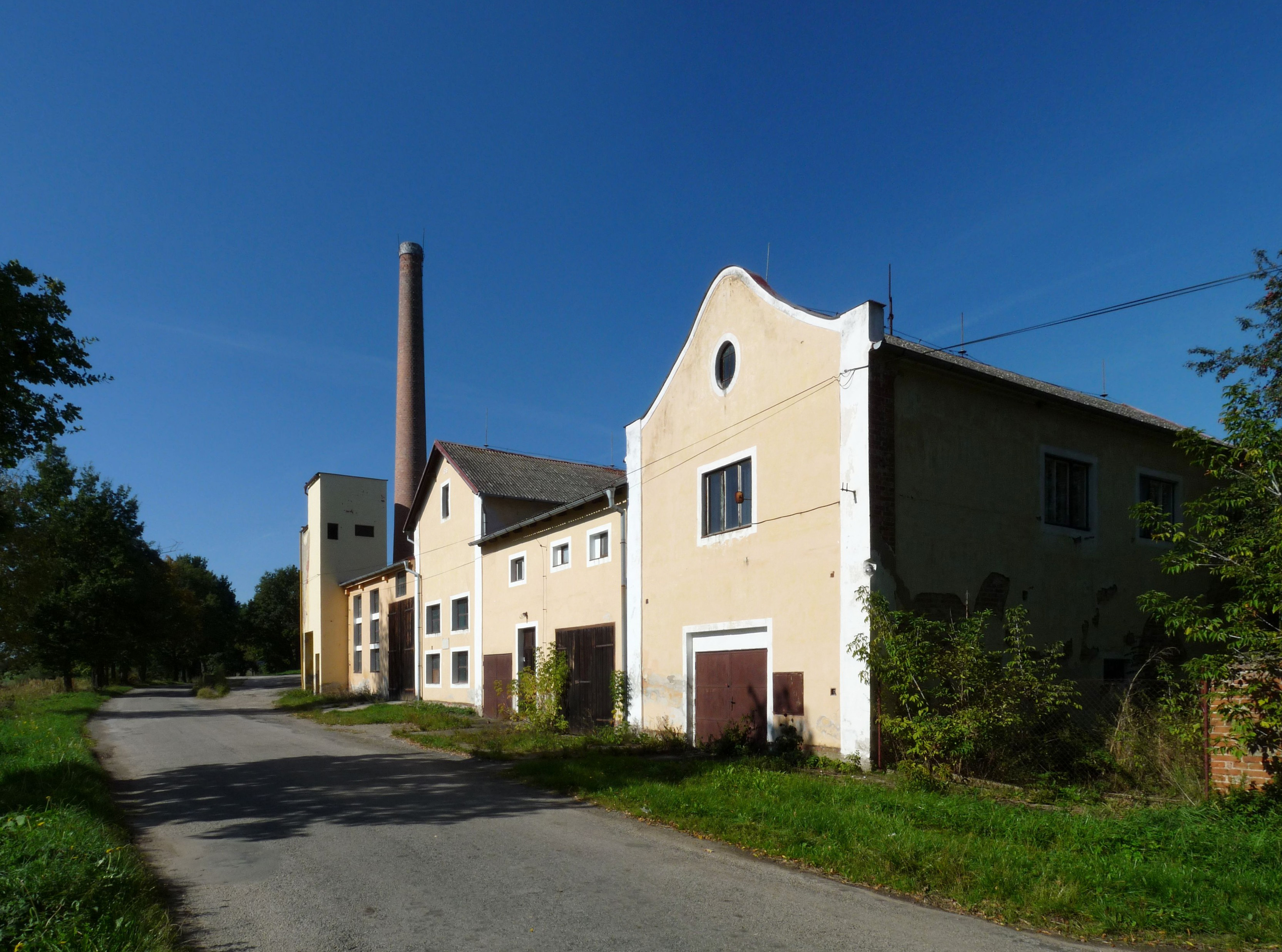 Distillery, building No 40 in the village of Malešice, České Budějovice District, South Bohemian Region, Czech Republic.